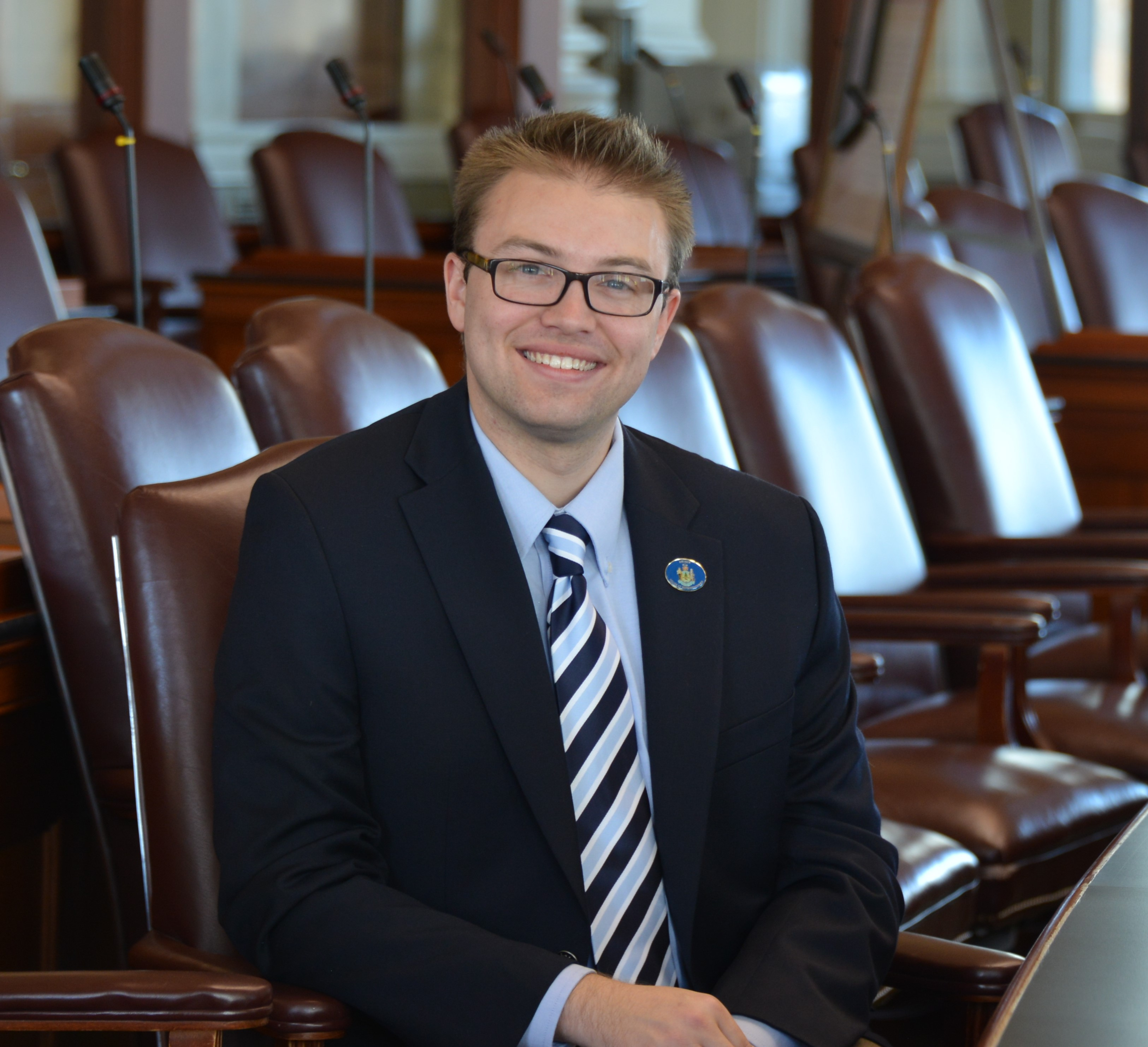 Official session photo of State Representative Justin Chenette on the floor of the Maine House of Representatives.